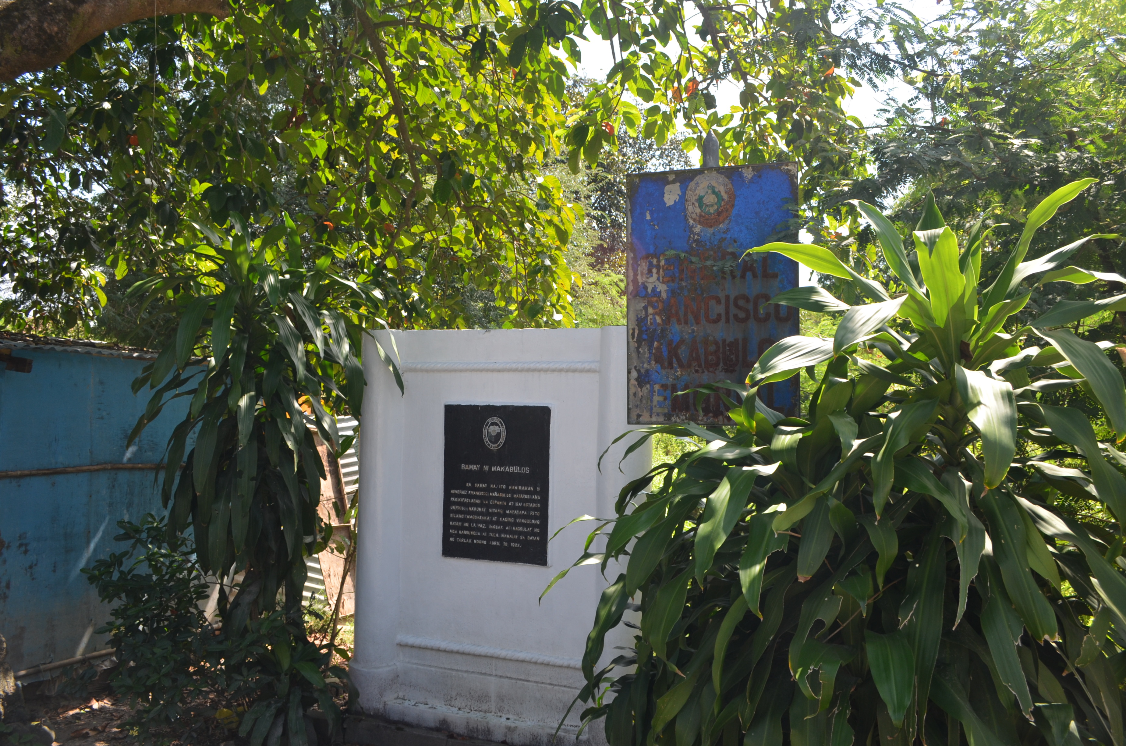 Remains of Makabulos Ancestral House